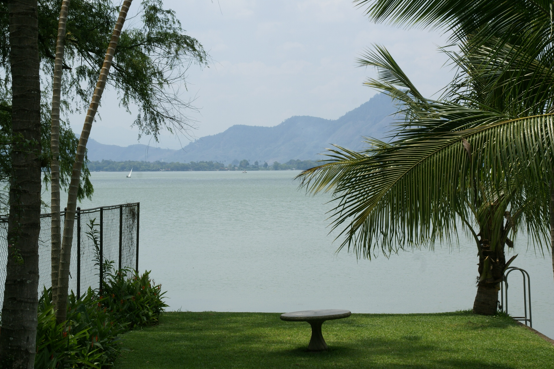 View at Amatitlán Lake, Guatemala